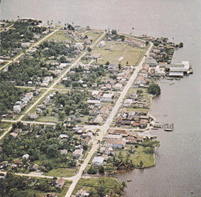 THIS IS AN AIR VIEW OF BARTICA, THIS IS THE IMAGE OF BARTICASTAR AN I HAVE GIVE EVERYONE THE RIGHT TO ENJOY THIS IMAGE Barticastar 00:32, 30 October 2007 (UTC)